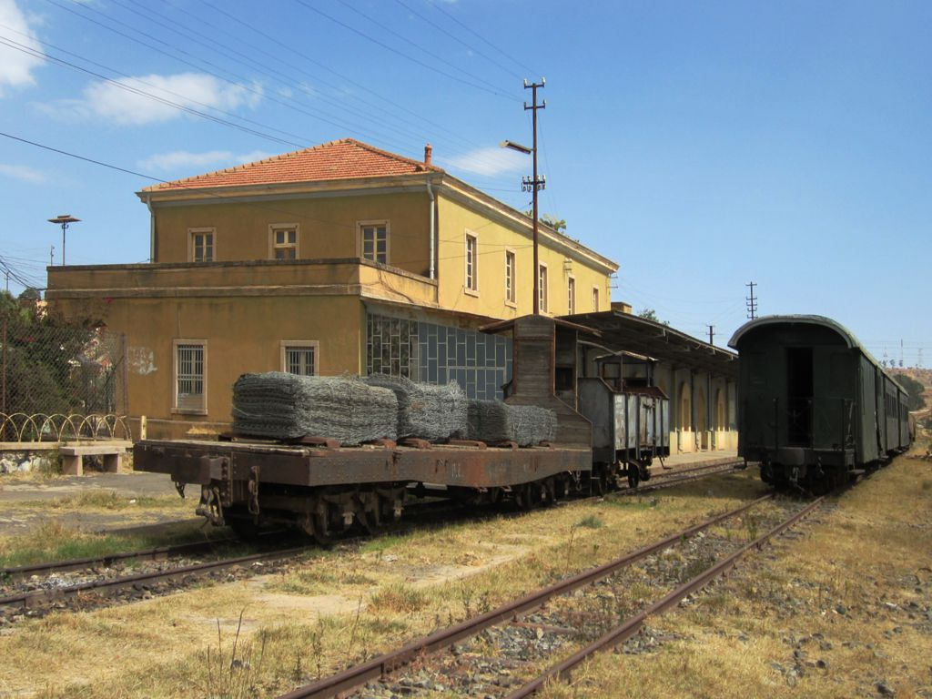 The Railway Station in Asmara, Eritrea. Sunday morning steam train excursions to Nefasit operate for rail enthusiasts when coal and passengers are available.